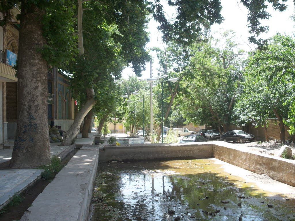 حسینیه